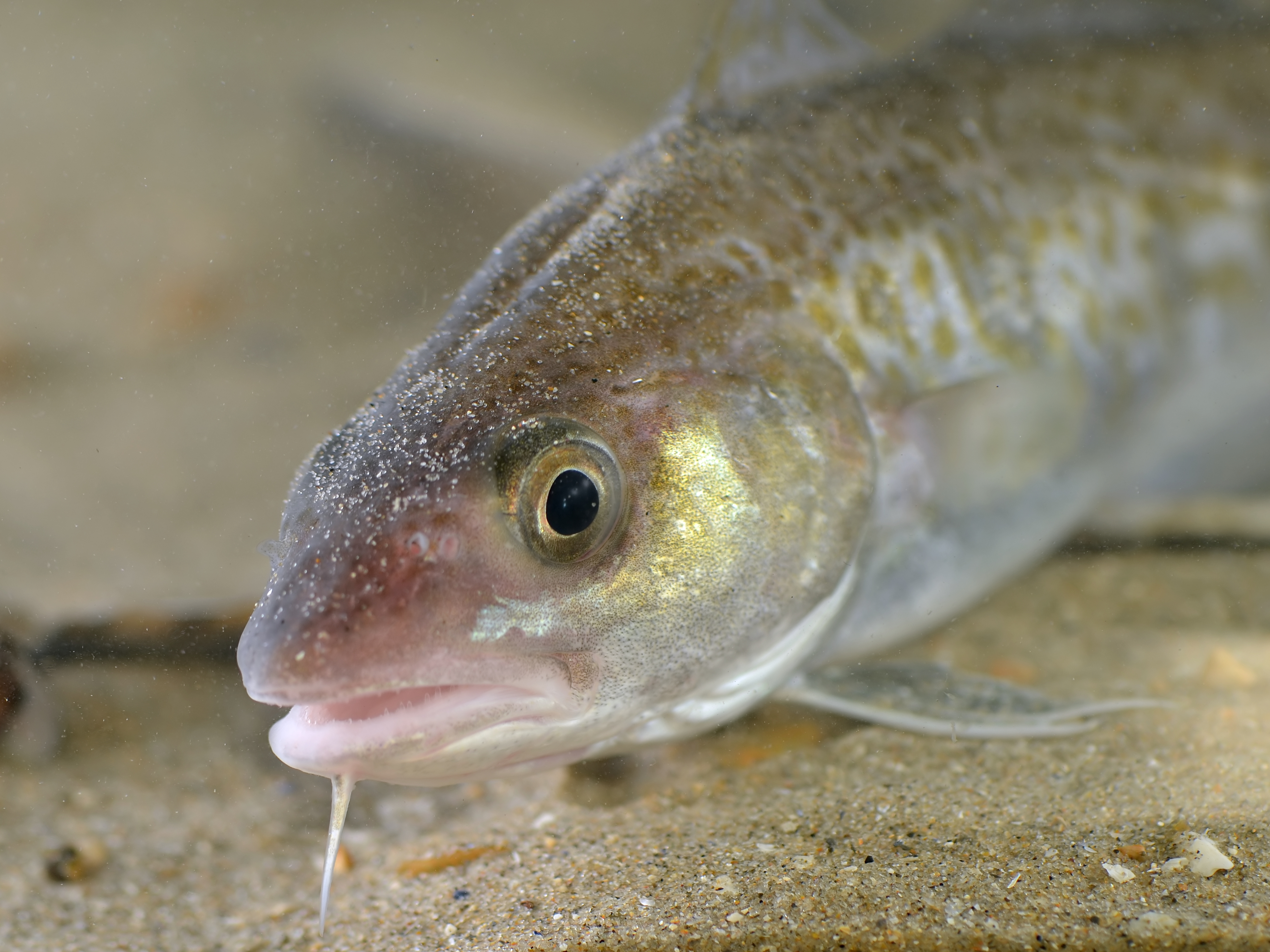 Head of an Atlantic cod from the Belgian part of the North Sea